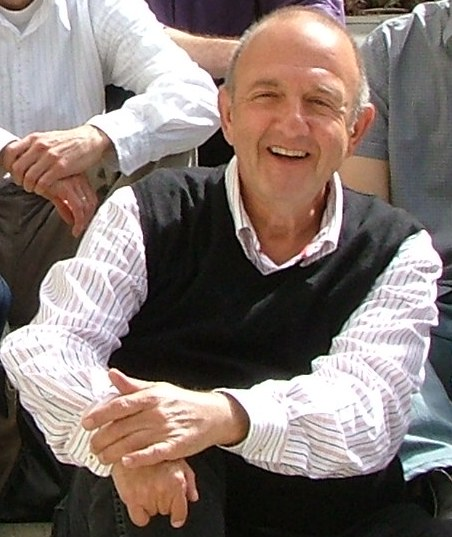 Amnon Bar Or, Israeli Architect